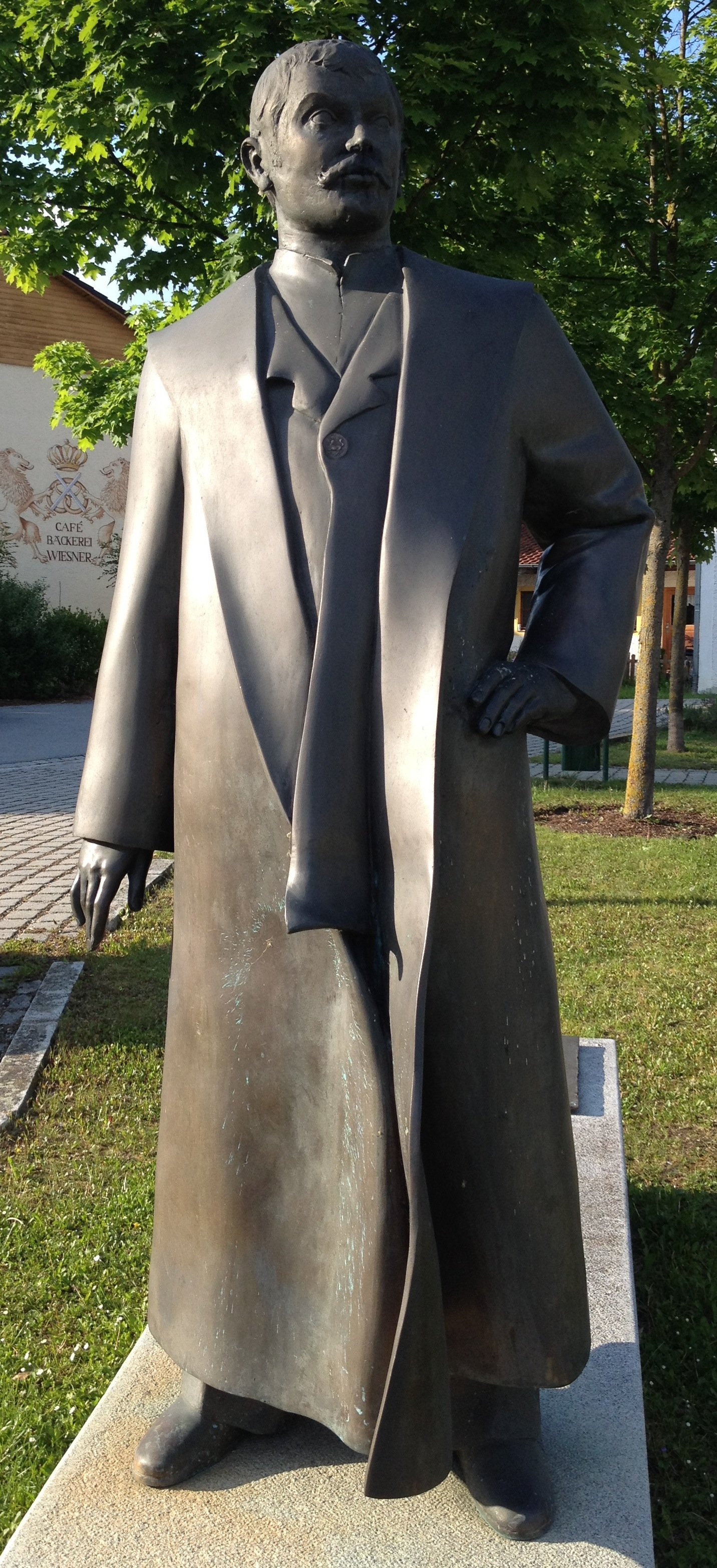 Franz Stuck, statue by Dominik Dengl in Tettenweis This is a photograph of an architectural monument.